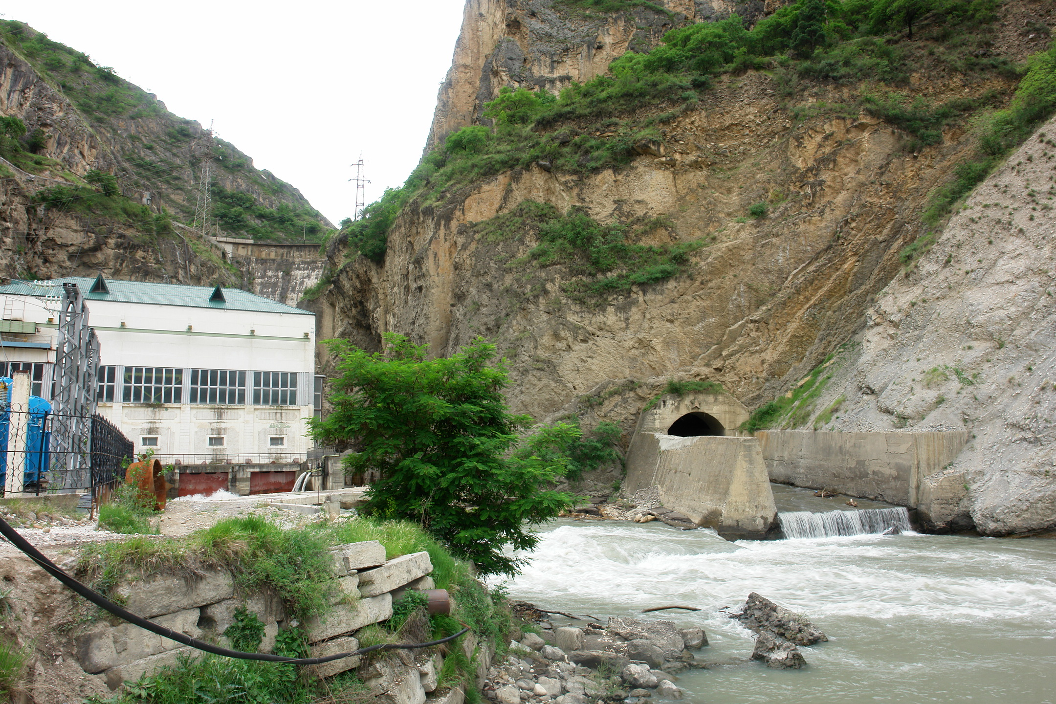 Gergebil HPP